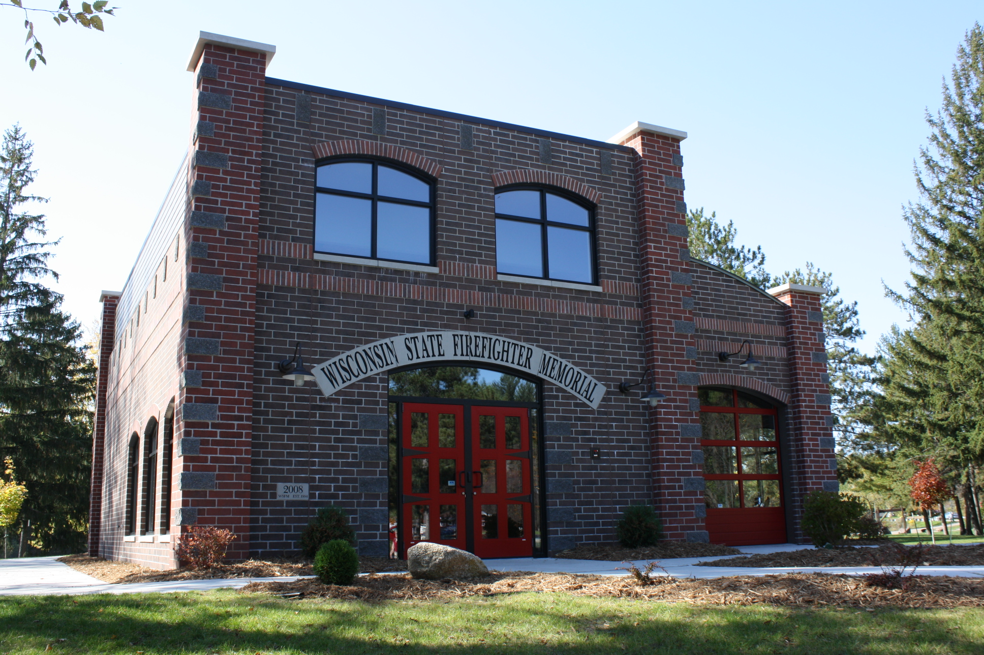 The Wisconsin State Firefighters Memorial building.